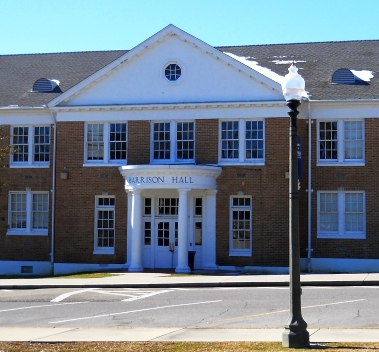 Harrison Hall is a Mississippi Landmark located on the campus of Mississippi Gulf Coast Community College at Perkinston, Mississippi, USA.